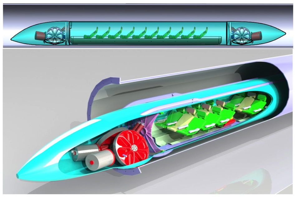 Hyperloop Cheetah is a design variant of Elon Musk's Hyperloop project. It features wheels, 3-wide seating, and end door airlocks.